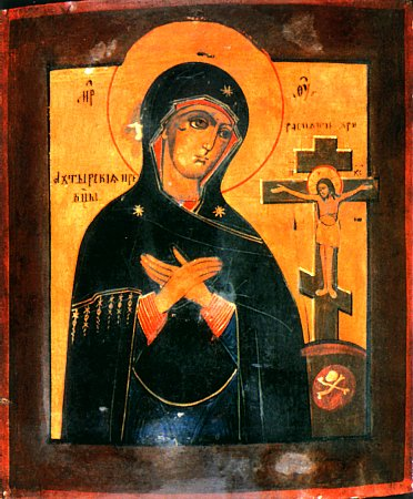 Icon of virgin Mary Akhtyrskaya.